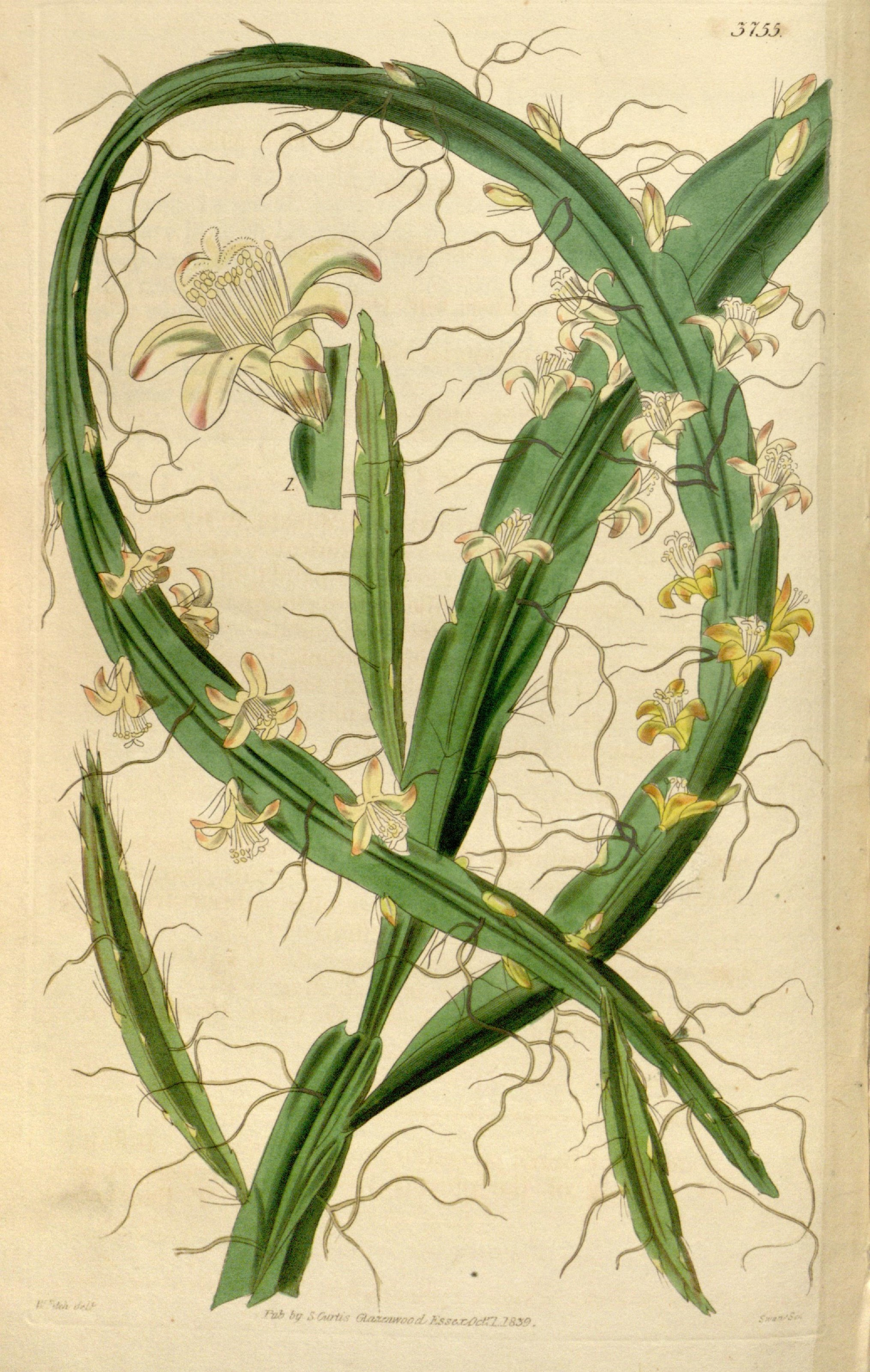 Curtis's botanical magazine.